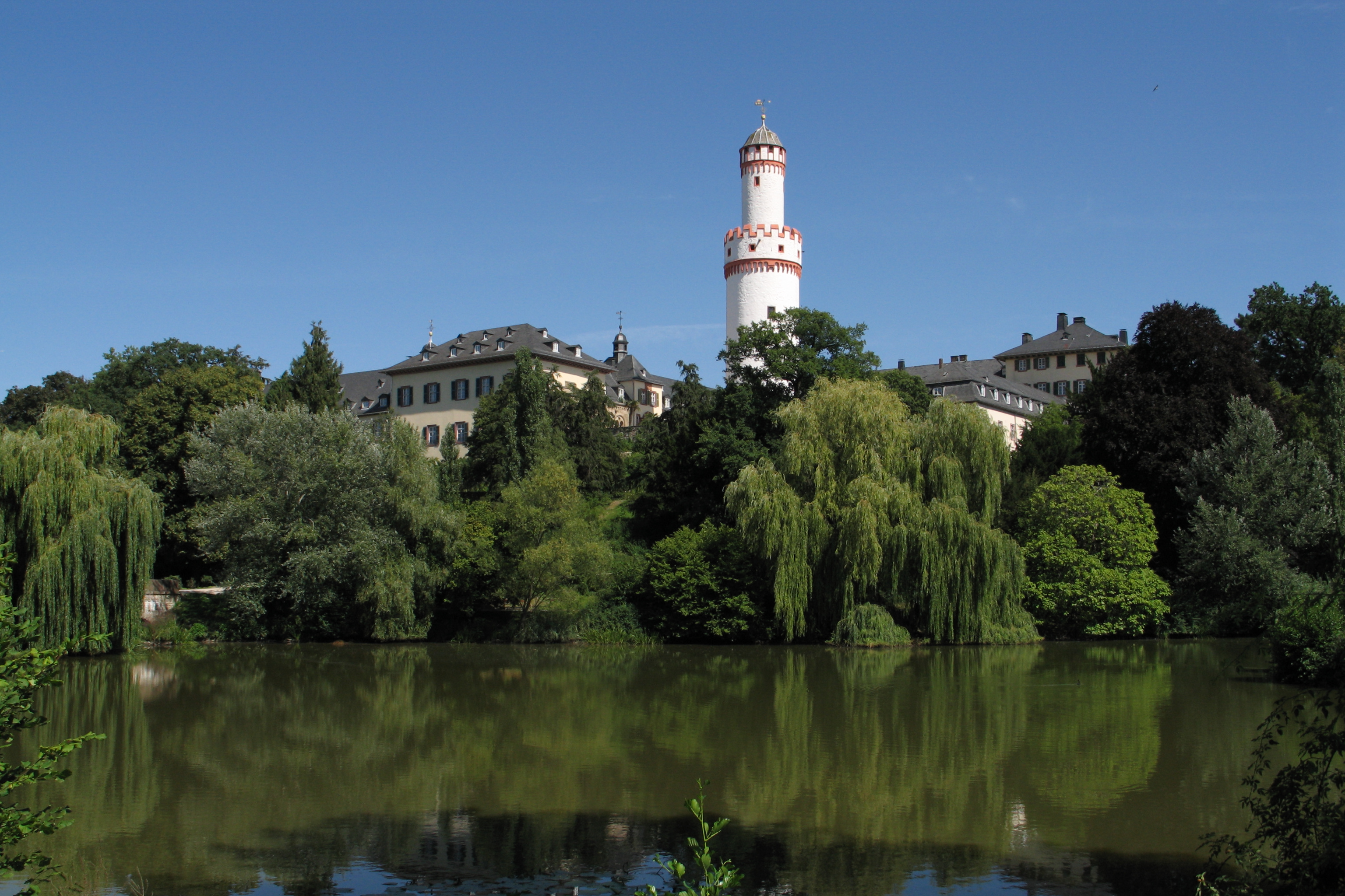 Palace garden at Bad Homburg vor der Höhe, Germany. Lake with palace and "White Tower" in background.